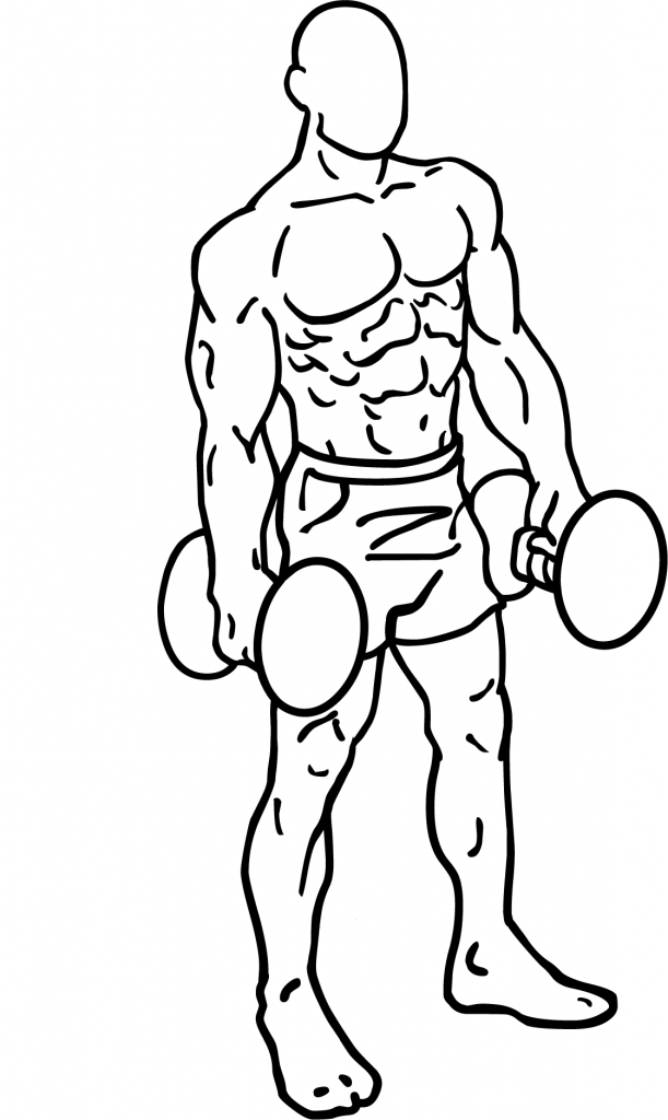 an exercise of hip